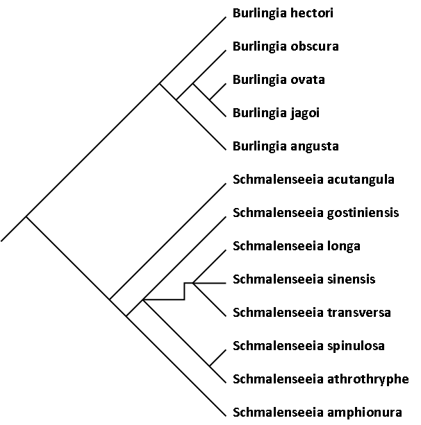 Cladogram of assumed relationships between species of the Burlingiidae, based on Ebbestad, J.O.; Budd, G.D. (2003). "Burlingiid trilobites from Norway, with a discussion of their affinities and relationships". Palaeontology 45 (6):text-figure 6.B, disregarding not named or described species (B. cf. jagoi and S. amphionura (Russia)).